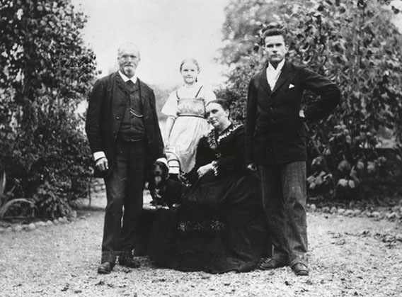 Paul Achilles (1842-1896), Johanna Gertrud (1884-1935), Emilie Preiswerk (1848-1923) and Carl Jung (1875-1961).